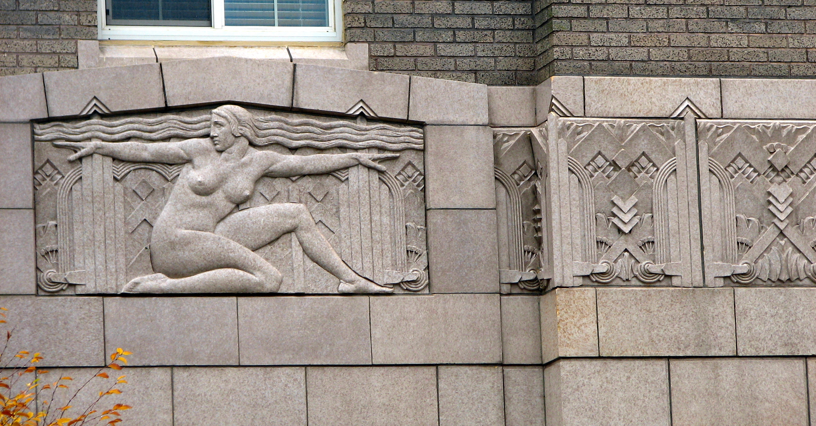 The historic Pacific Telephone and Telegraph Building, located at 1304 Vandercook Way in Longview, Washington, United States, is listed on the US National Register of Historic Places (NRHP).NRHP reference number 85003020